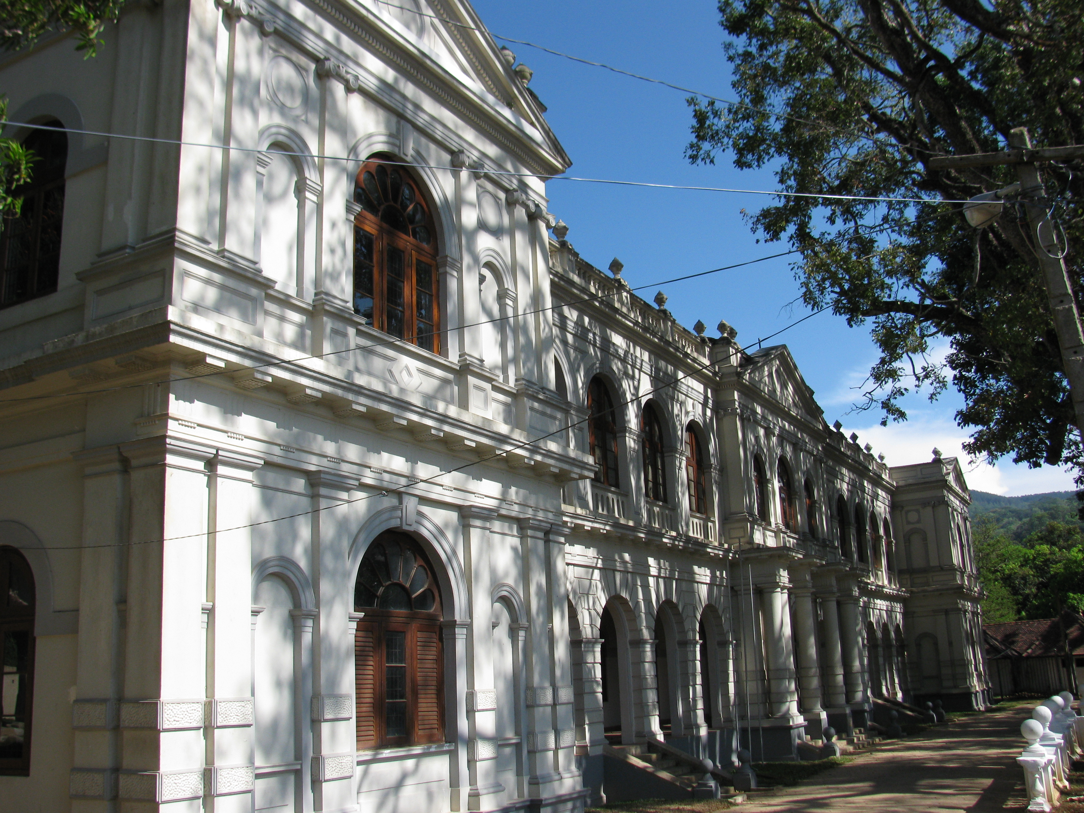 phone and power lines in foreground with the National Museum of Kandy in background